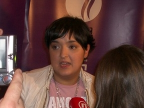 Marija Šerifović on a press conference after winning Beovizija 2007.